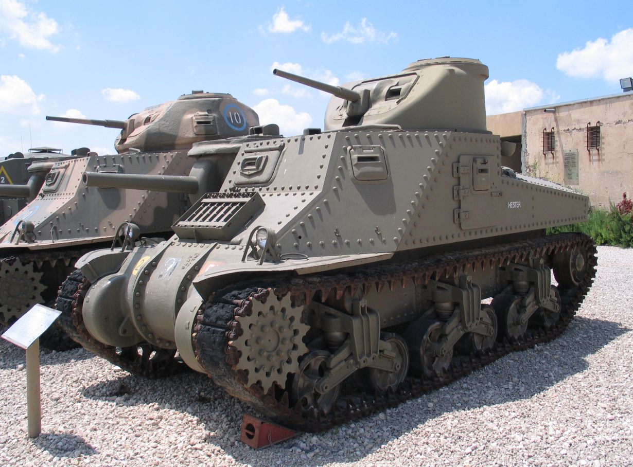 Description: M3 Lee medium tank in Yad la-Shiryon Museum, Israel. 2005. Source: Photo by me, User:Bukvoed.